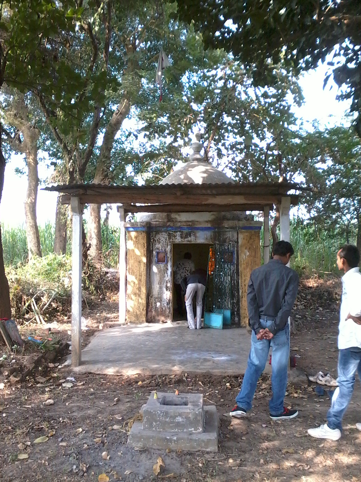 Vachhavad5